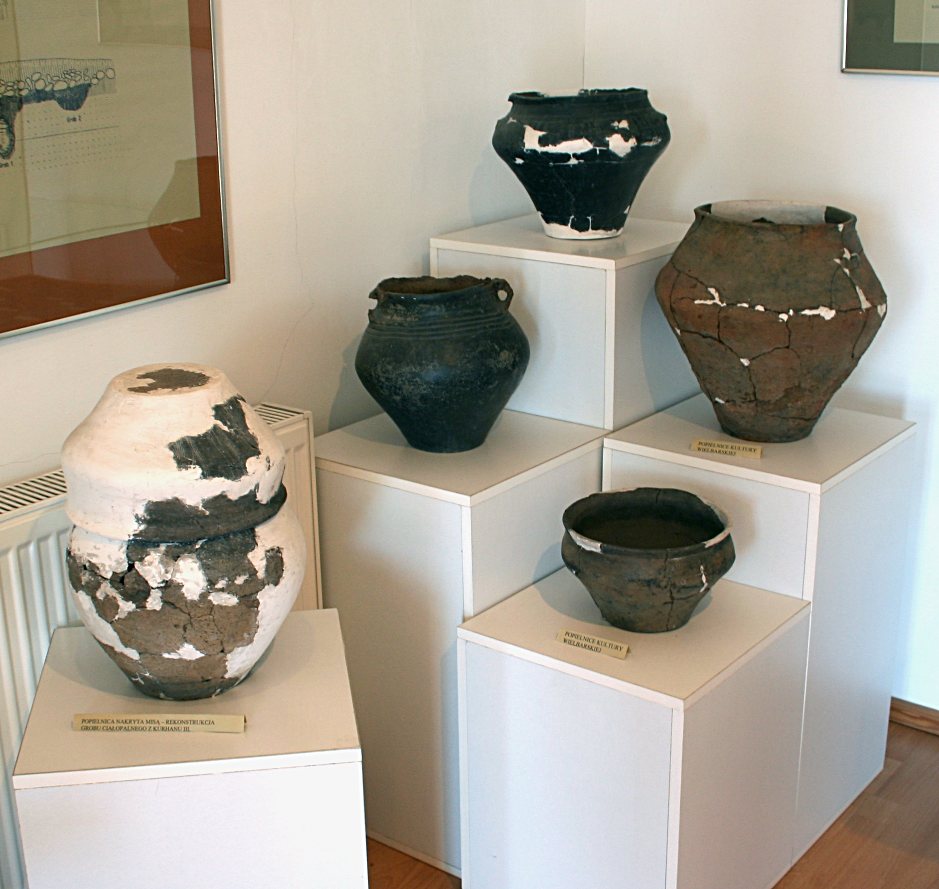 Wielbark culture ceramic vessels. Museum of History and Ethnography in Chojnice, the branch in Odry, Poland, connected with Odry (cmentarzysko), the historical Odry cemetery (Gothic)